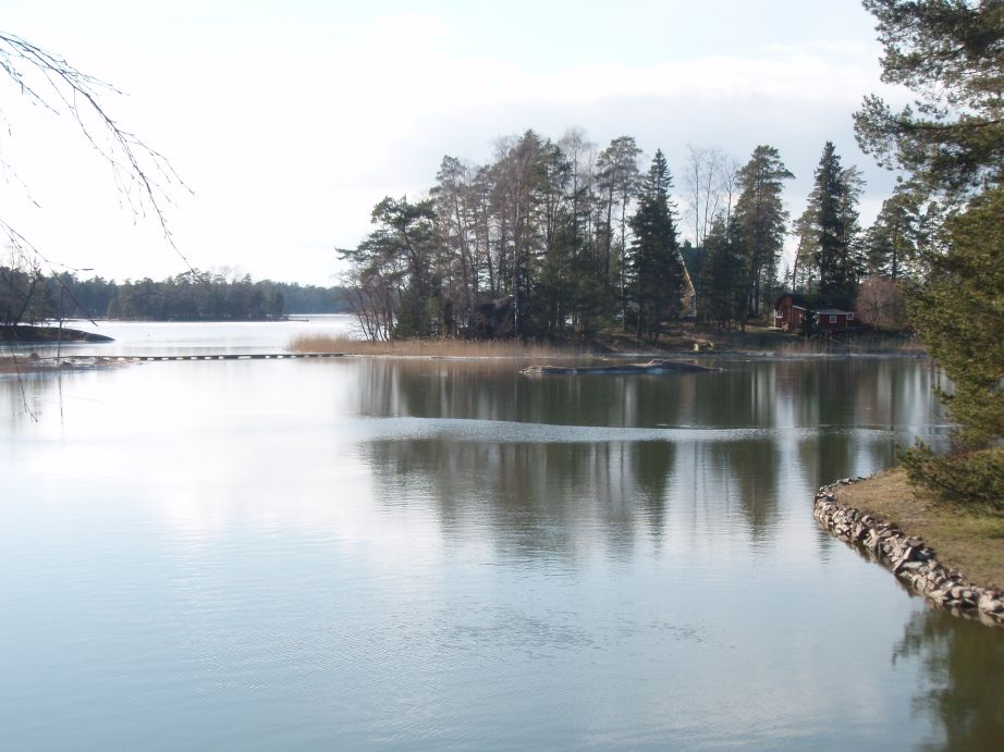 The island Kotisaari (Boholmen) in Espoo, Finland